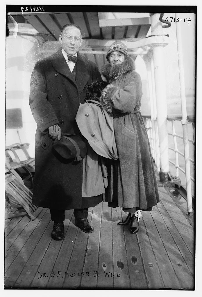 Benjamin Franklin Roller (1876 - April 19, 1933) was a physician, a professional wrestler and a football player. Here is pictured in 1916.